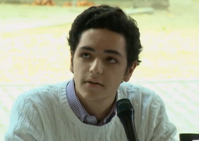 Ducas speaking at a conference